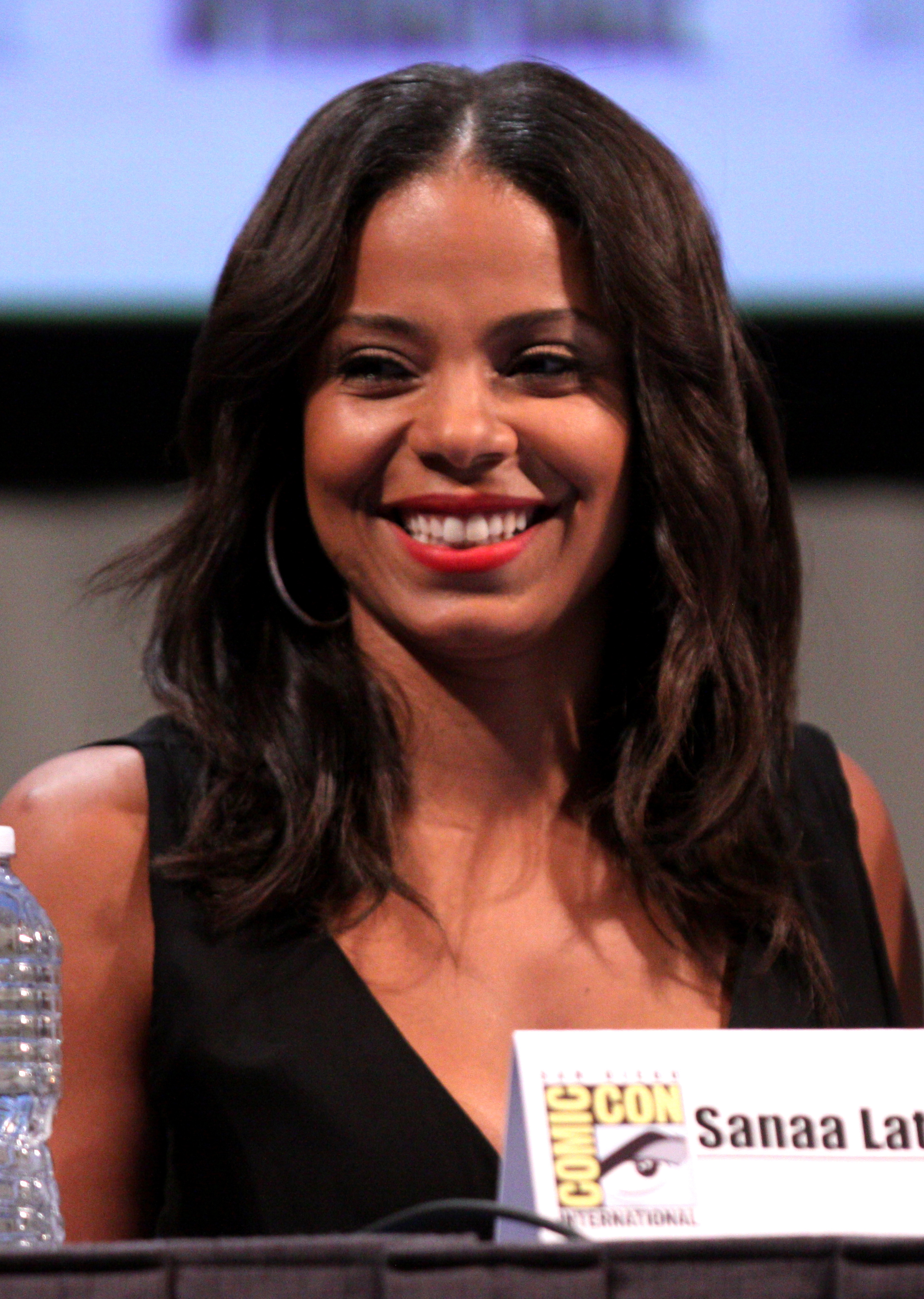 Sanaa Lathan at the 2011 Comic Con in San Diego